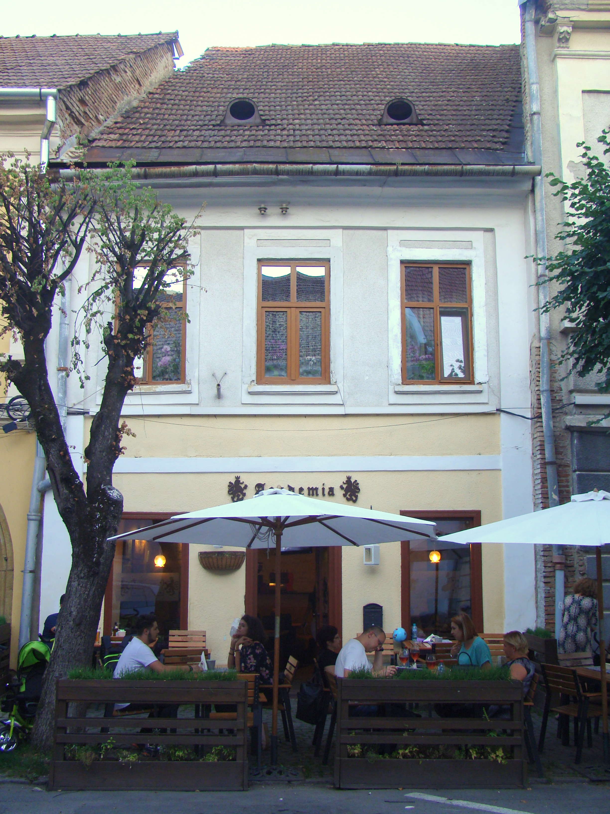 House, historic monument, in Bistrița, Nicolae Titulescu street 5